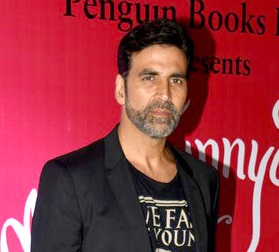 Akshay Kumar at Launch of his wife Twinkle Khanna's book 'Mrs Funnybones',in 2015